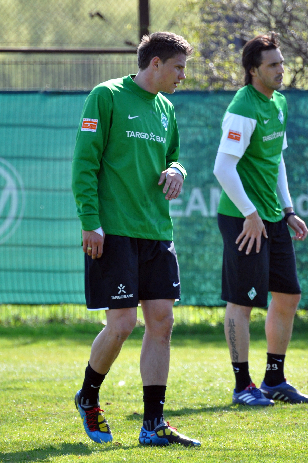 Sebastian Boenisch during Werder Bremen's training (23/04/2010).